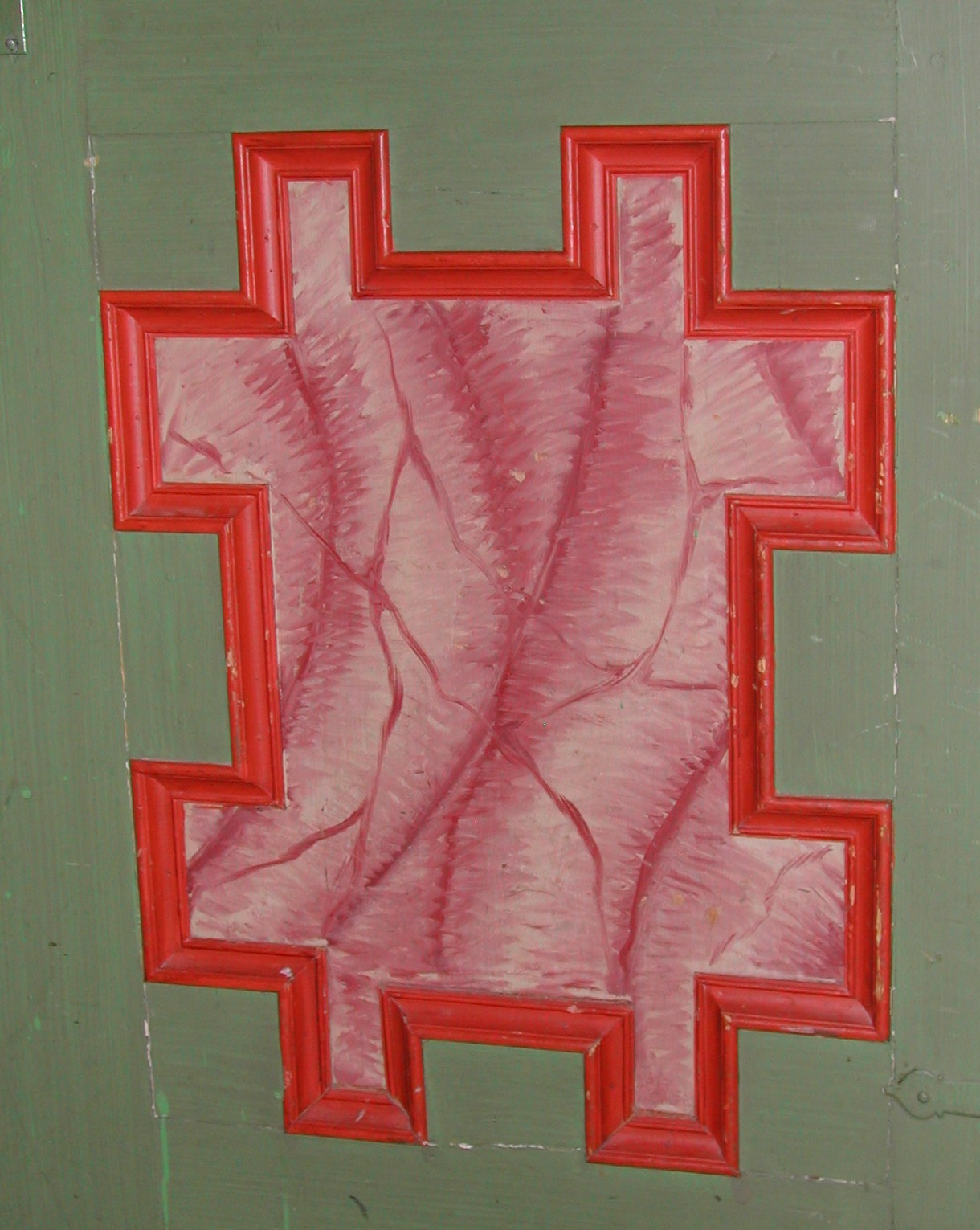 Part of door in Dolstad church